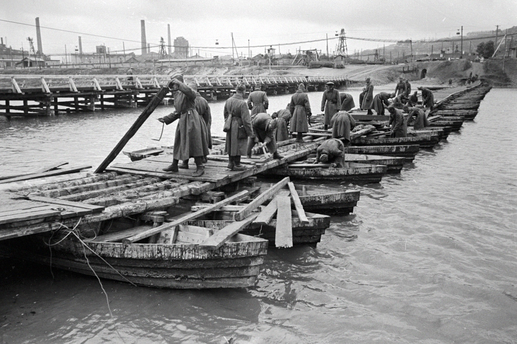 “Combat engineers building a bridge”. Combat engineers building a bridge across the Seversky Donets River.